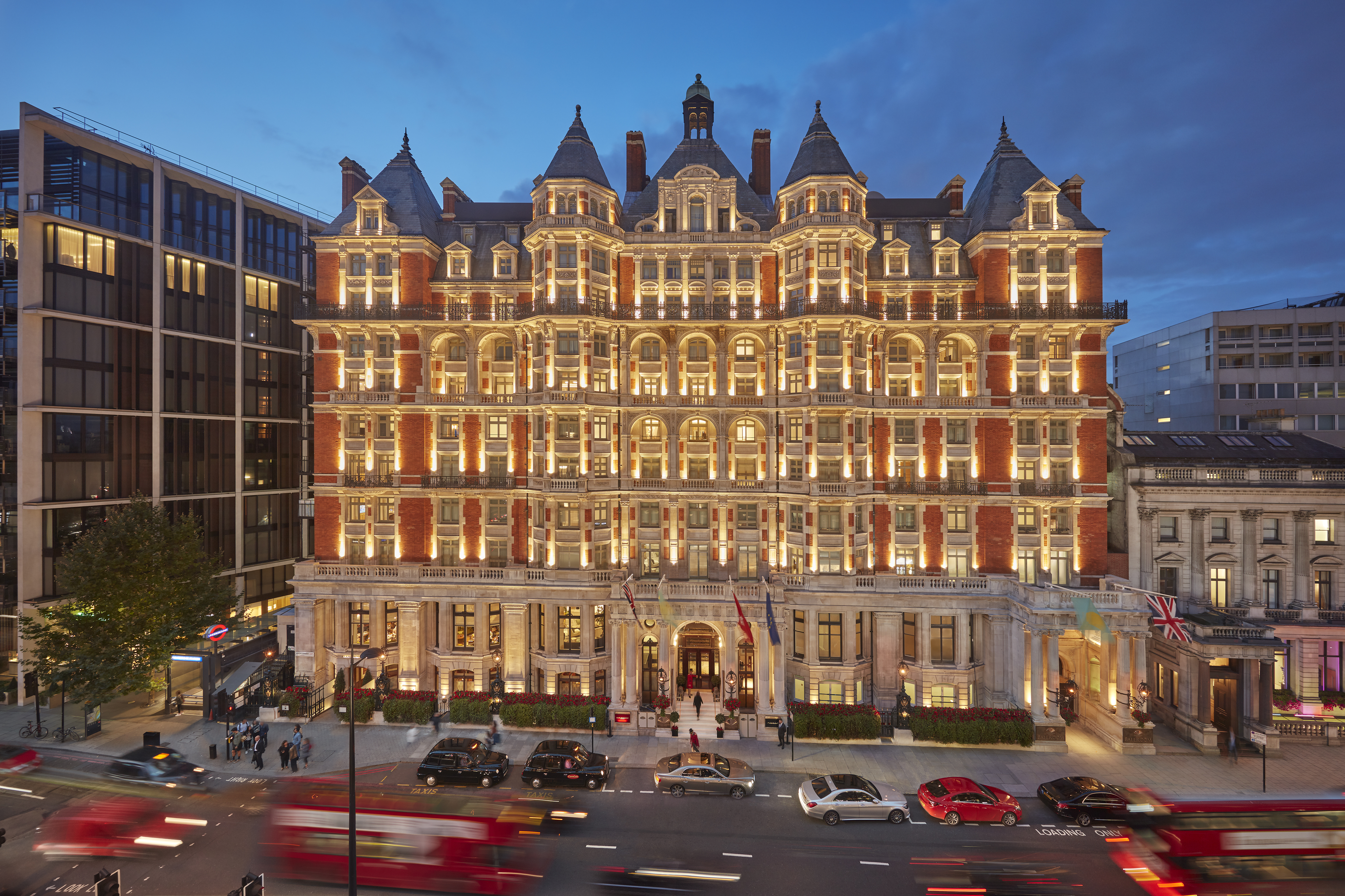 The newly restored Mandarin Oriental Hyde Park, London